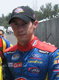 Kelly Bires posing with a fan at the 2008 NASCAR Nationwide Series event at Mexico City